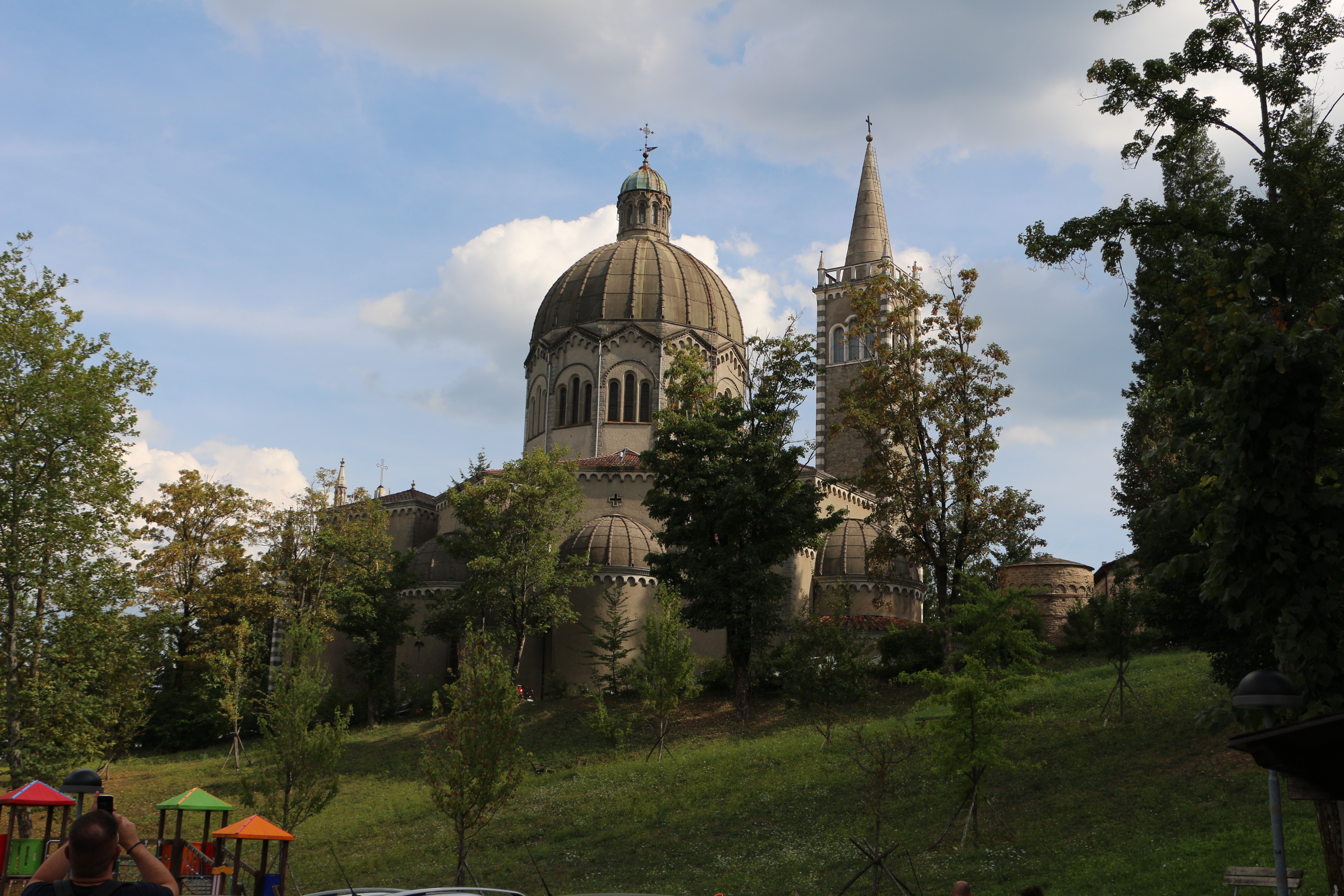 San Mamante (Lizzano in Belvedere)